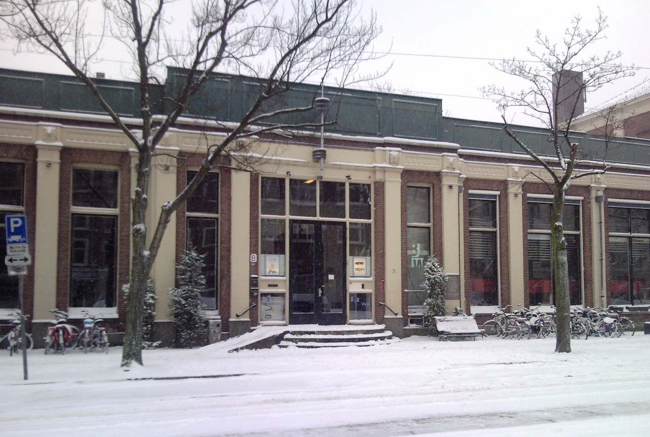 Studio Plantage in Amsterdam, the Netherlands in December 2010